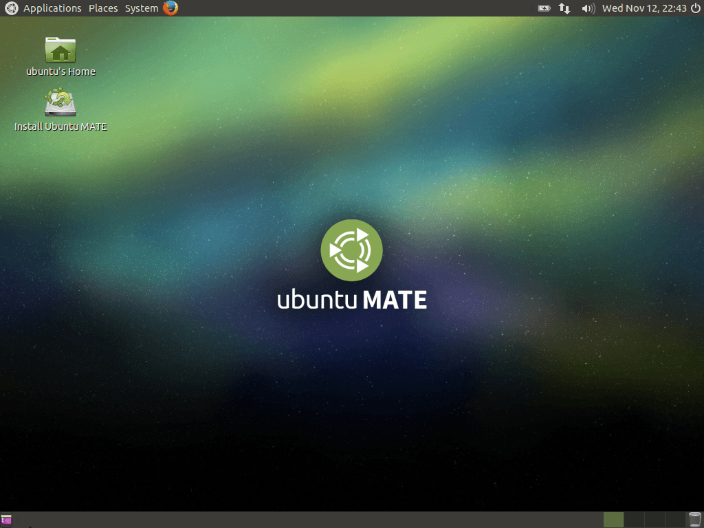 Ubuntu MATE version 14.10